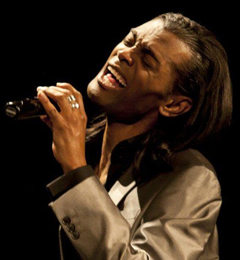 Britt Quentin and Estonian Voices - Tallin - December 2011